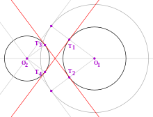 gh fg